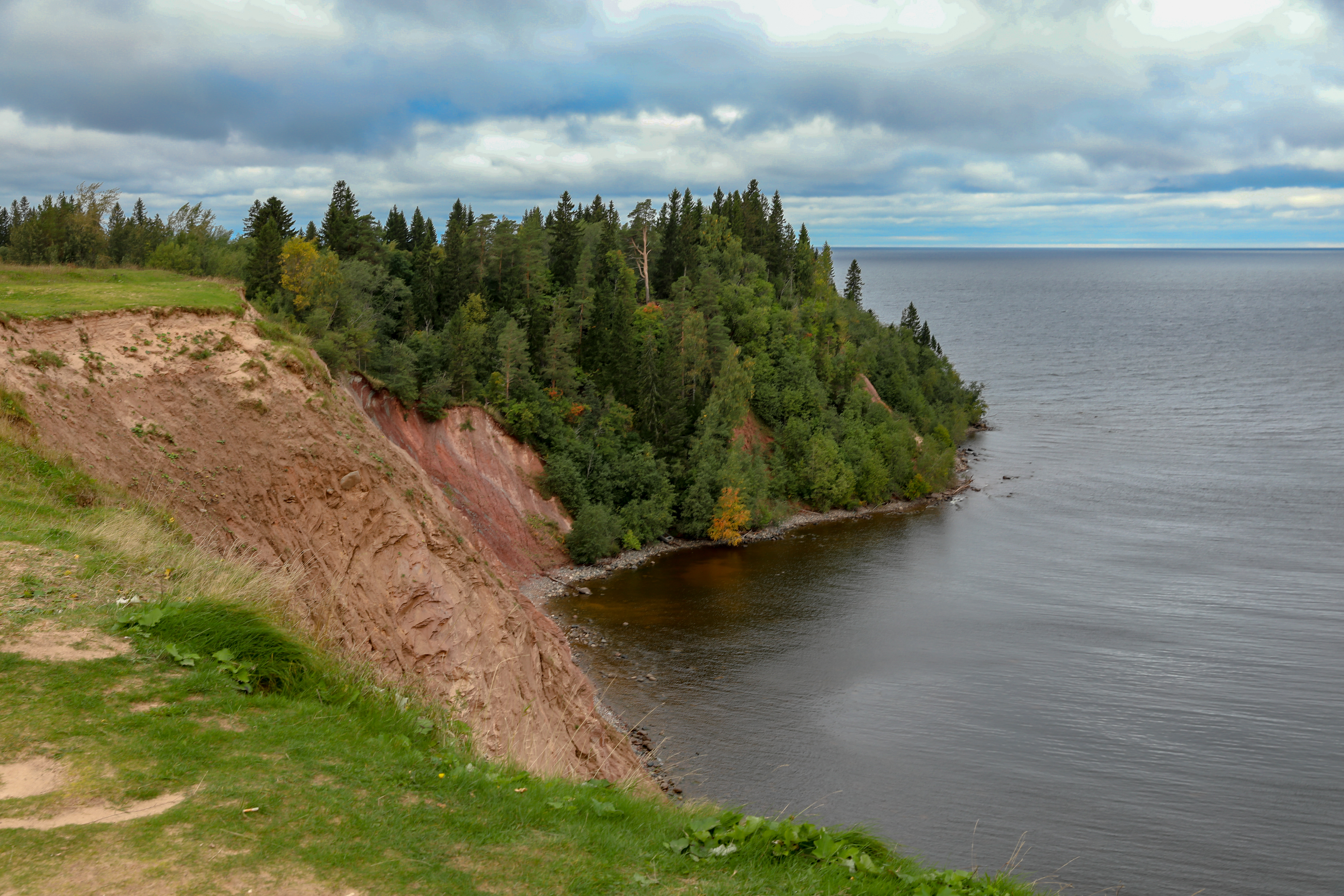 Andoma mountains in Vologda oblast, Russia